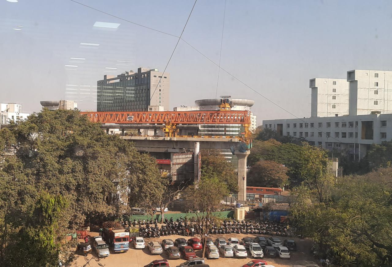 Work Progress on Line 2 Reach 3 (Civil Court-Ramwadi)